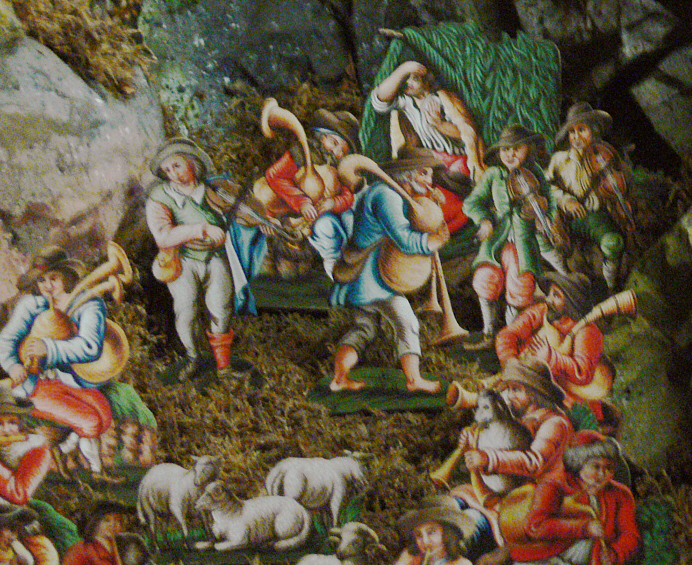 Paper nativity scene. Figures by Václav Fieger (1860–1924), gouache on cardboard; Třebíč in Moravia, c. 1890. Krippensammlung des Bayerischen Nationalmuseums; Collection of nativity scenes in the Bavarian National Museum, Munich